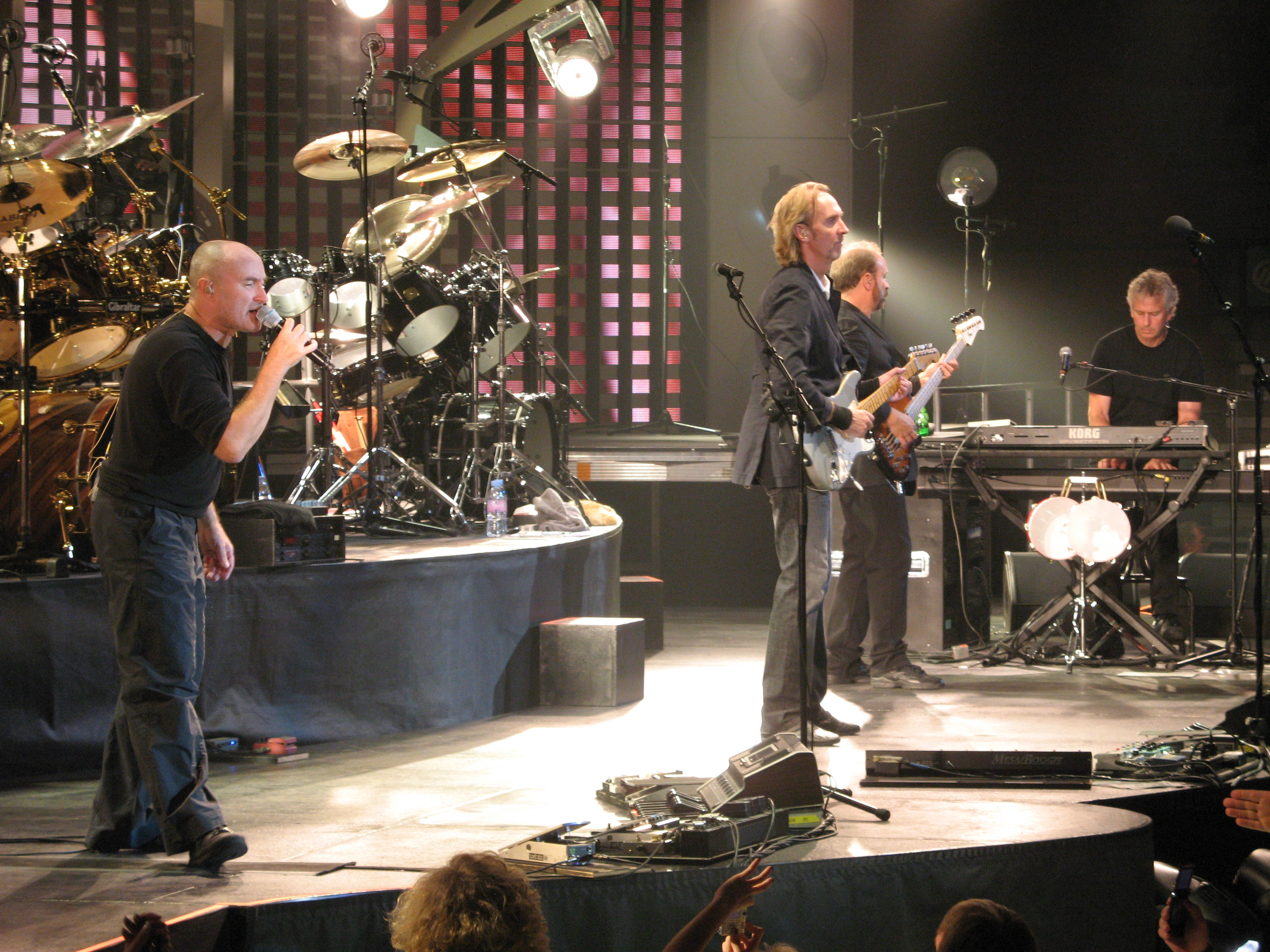 Genesis concert at the Mellon Arena, Pittsburgh, Pennsylvania, USA. Performing "Throwing It All Away".